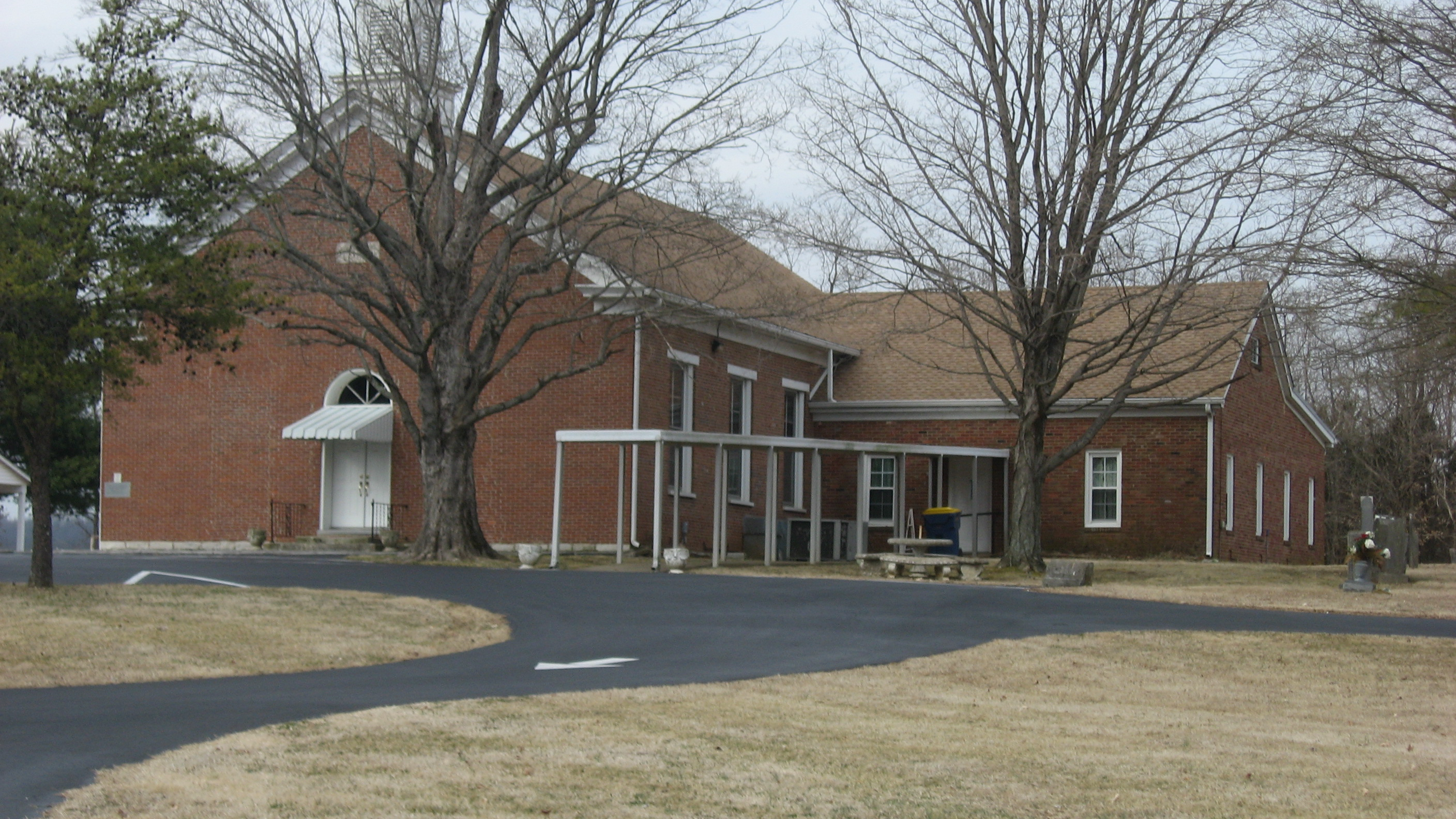 Front and eastern side of the Mount Olivet Cumberland Presbyterian Church, located at 2640 Mount Olivet Road (Kentucky Route 526) north of Bowling Green in Warren County, Kentucky, United States. Built in 1845, it is listed on the National Register of Historic Places.